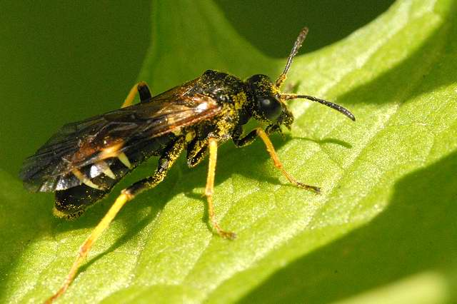 Tenthredo koehleri from Commanster, Belgian High Ardennes .